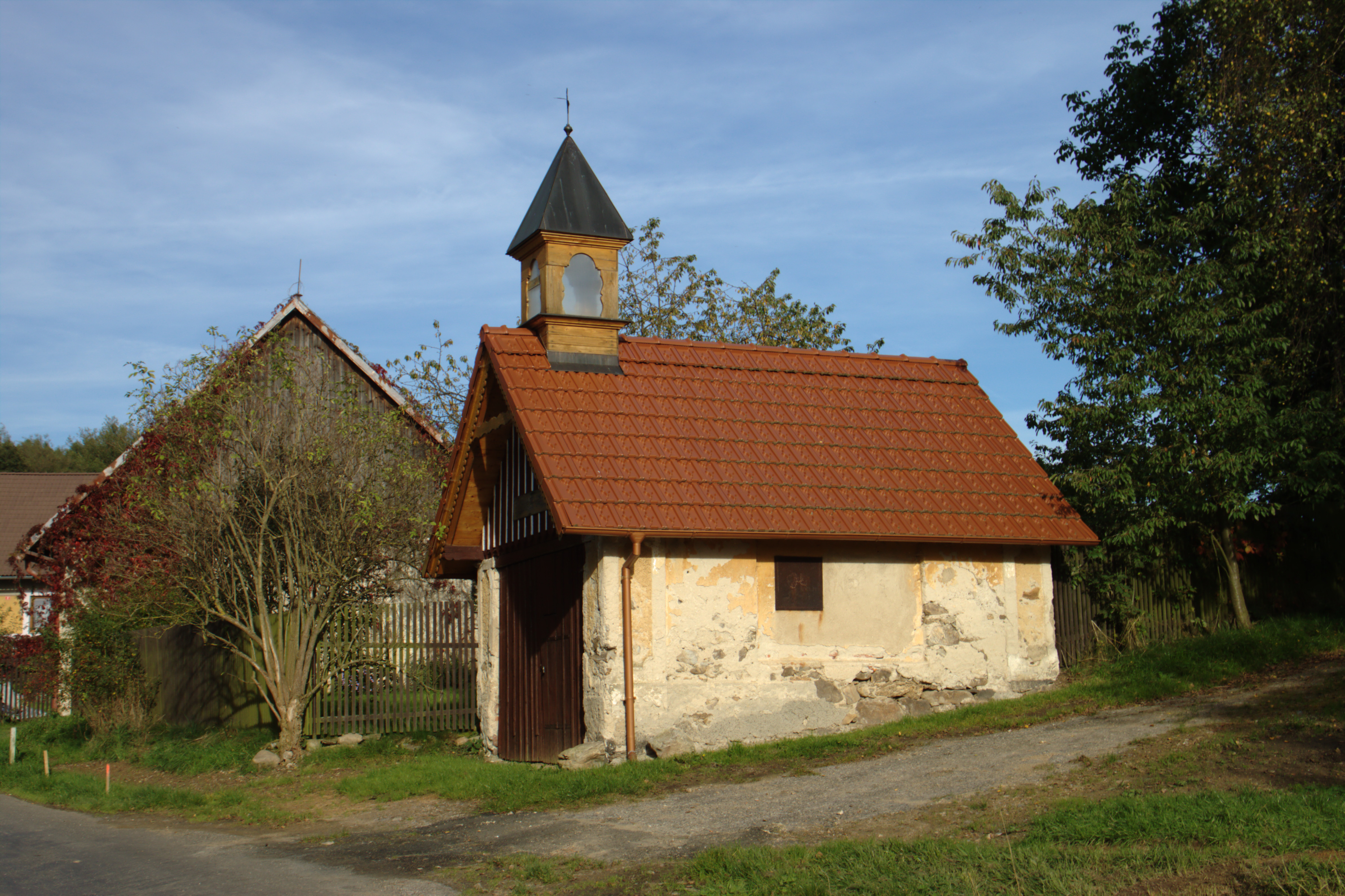 A chapel in central Staré Nespeřice, a village near Zruč nad Sázavou, Central Bohemian Region, CZ